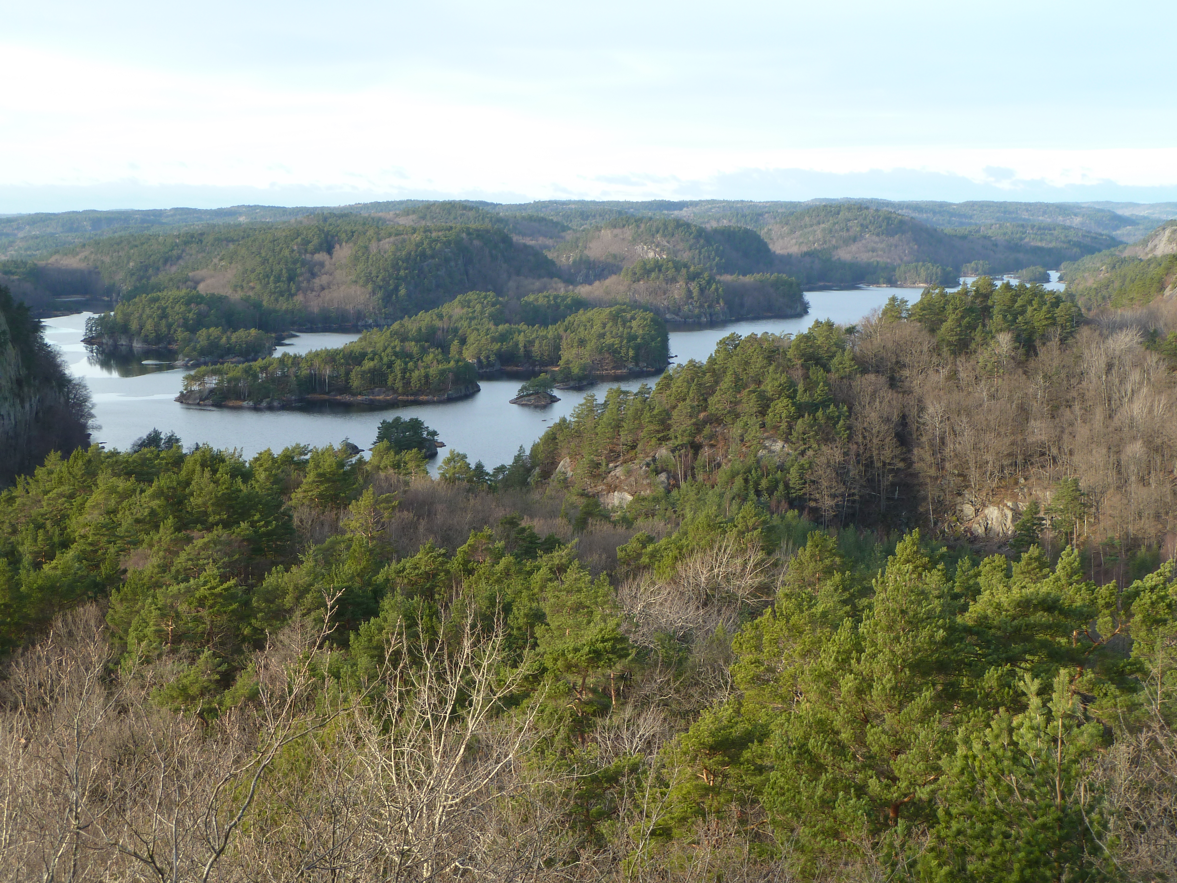 Rossevannet. Lake in Vest-Agder, Norway.